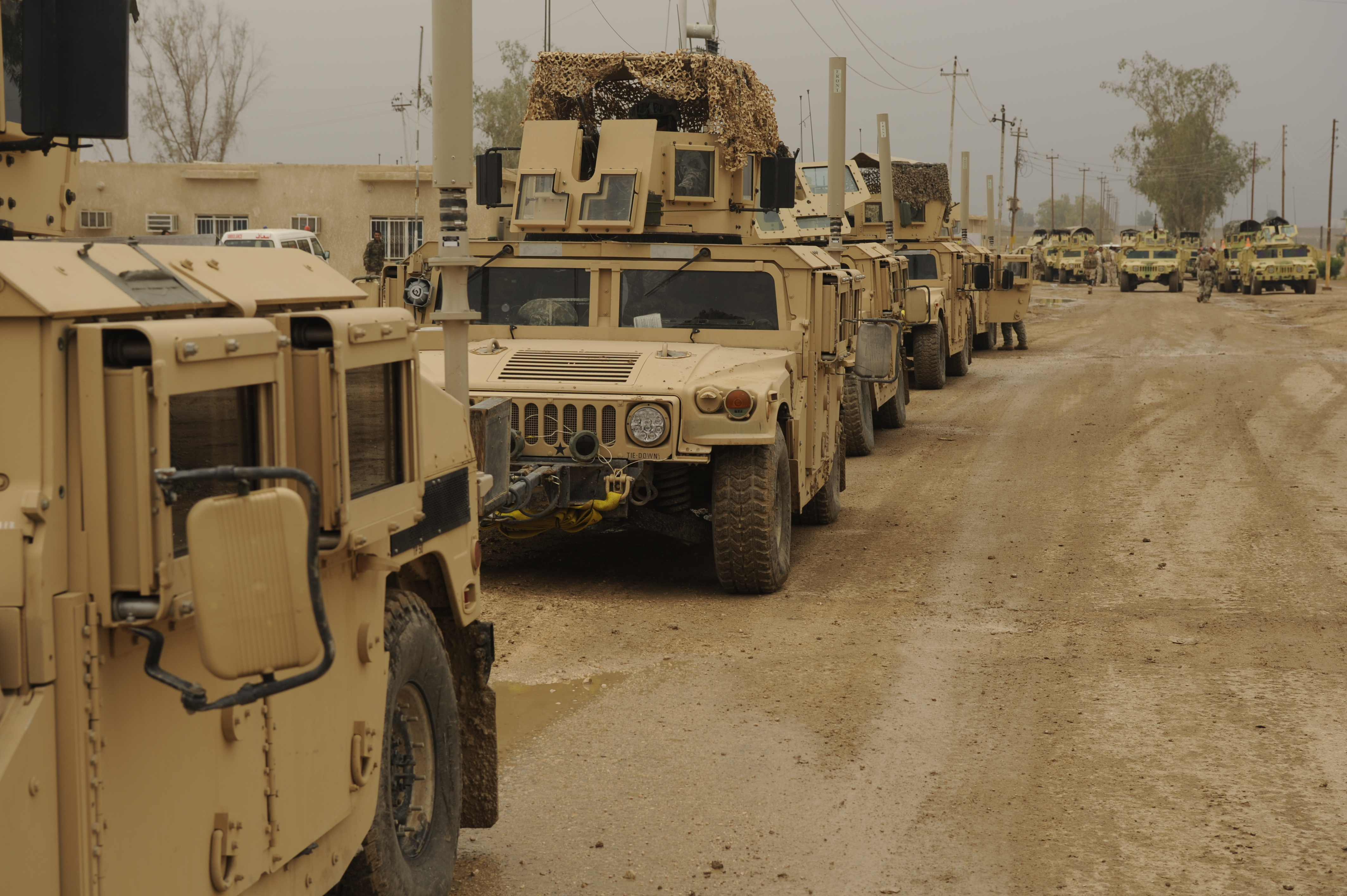 U.S. Soldiers assigned to 2nd Battalion, 8th Infantry Regiment, 2nd Brigade Combat Team, 4th Infantry Division and Iraqi soldiers assigned to 8th Division Iraqi Army stage their vehicles to depart from Camp Diwaniyah, Iraq, Nov. 30, 2008, to conduct a cordon and knock operation. (U.S. Air Force photo by Senior Airman Eric Harris/Released)